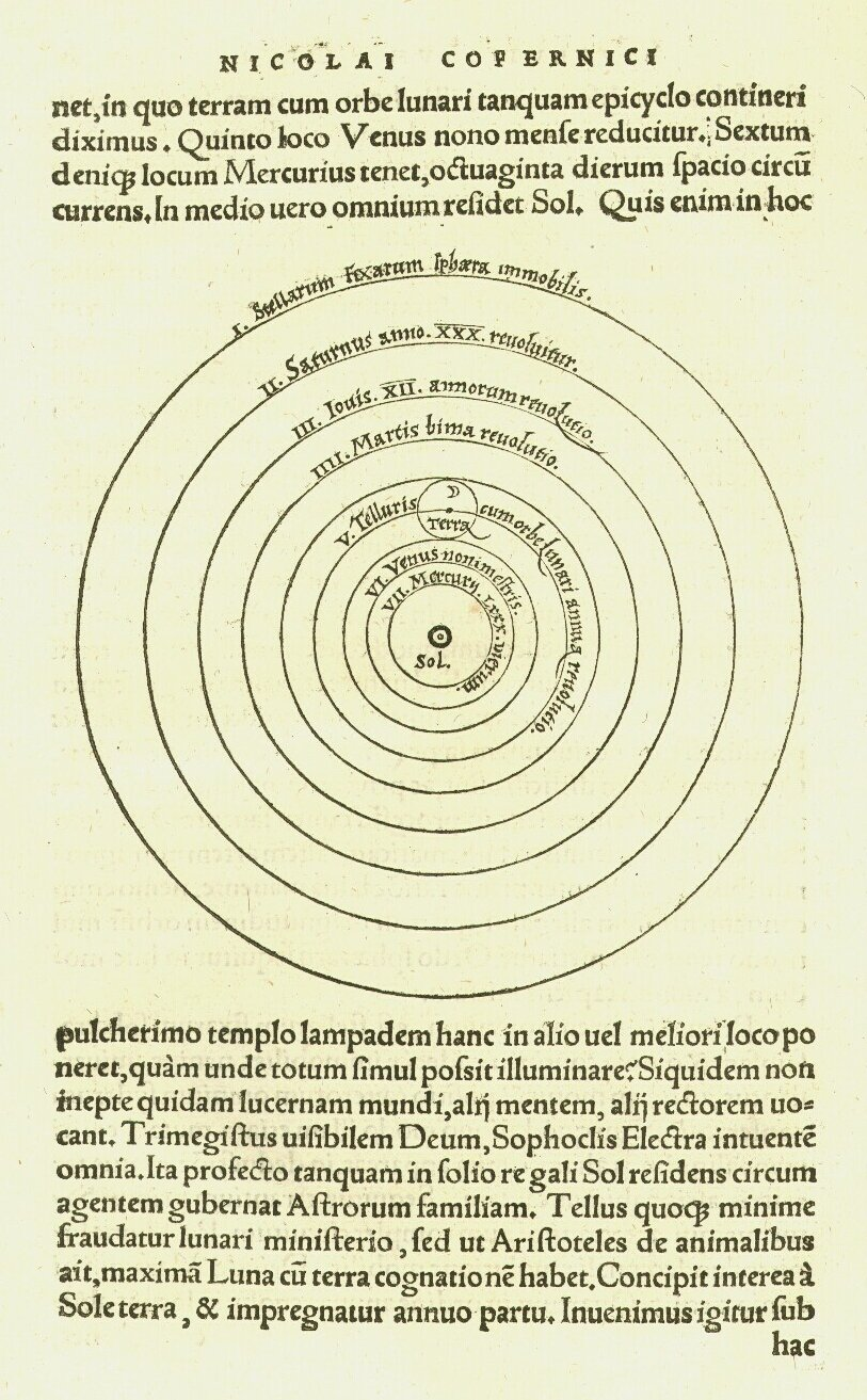 Image of heliocentric model from Nicolaus Copernicus' De revolutionibus orbium coelestium